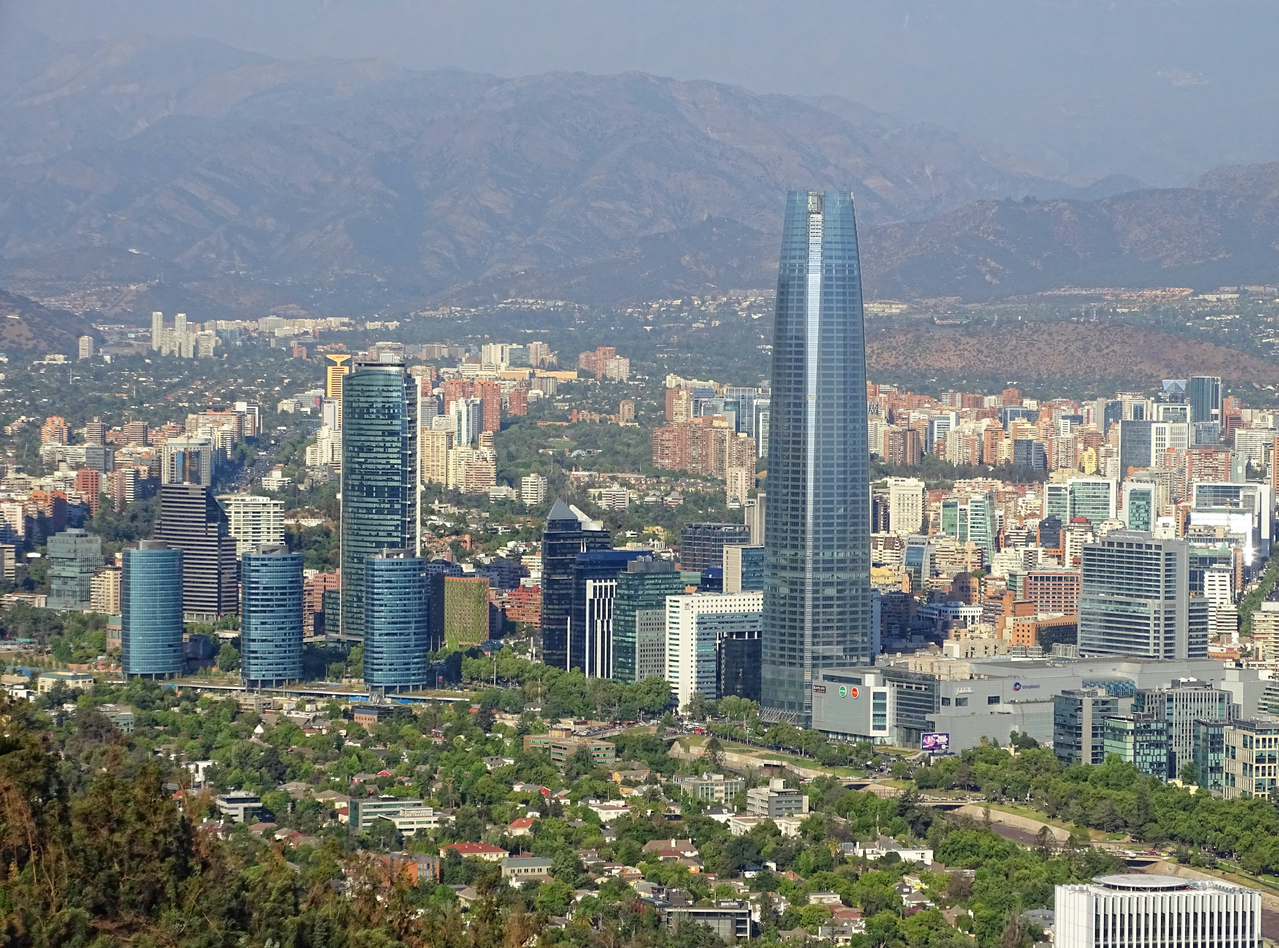 Costanera Center in the financial district of Santiago de Chile.